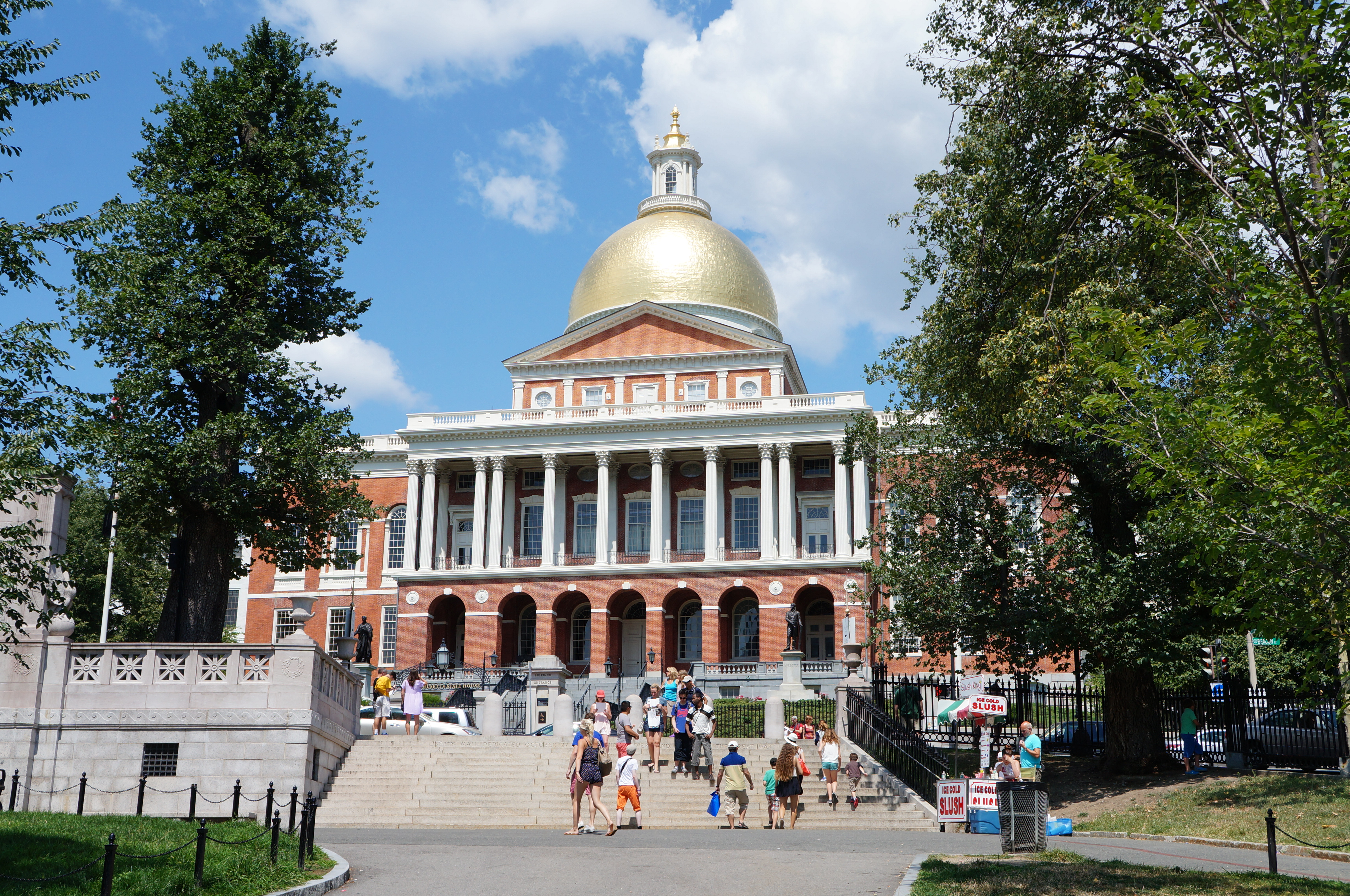 Massachusetts State House